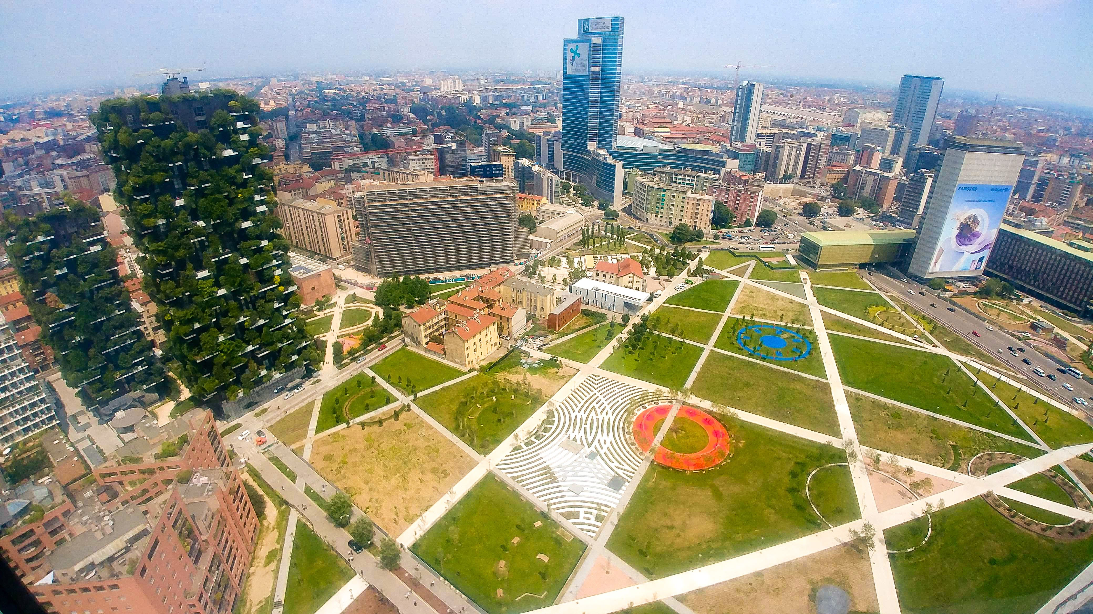 Panoramic photo of Library of Trees Park in Porta Nuova (Milan)